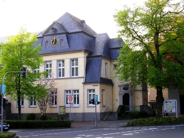 Old townhouse Bergheim, North Rhine-Westphalia, Germany